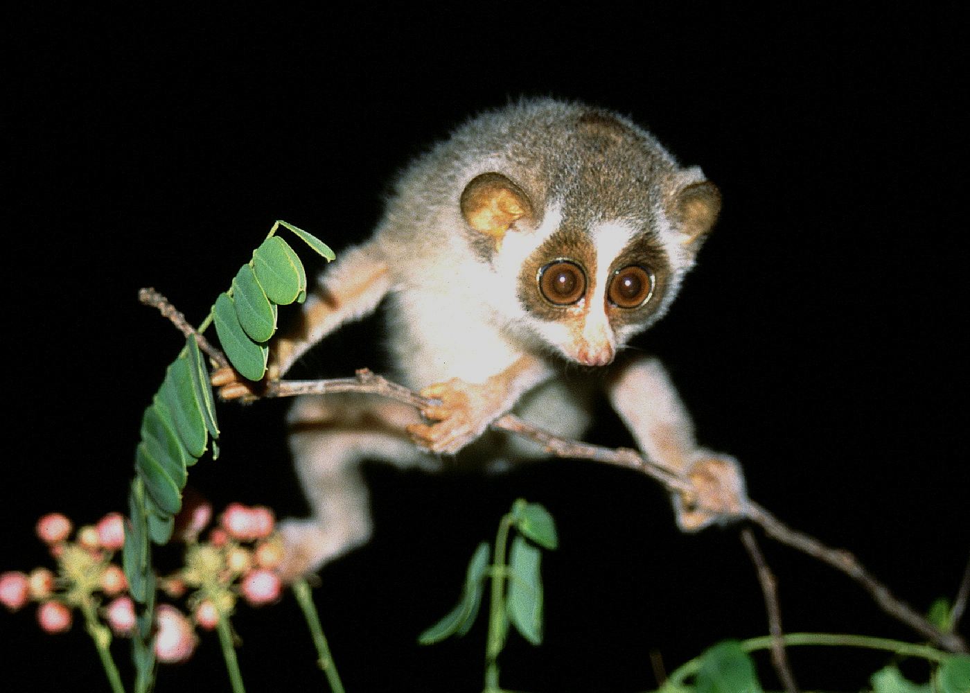 Gray slender loris (Loris lydekkerianus nordicus) from Northern Sri Lanka (Mannar, Trincomalee, Giratele)